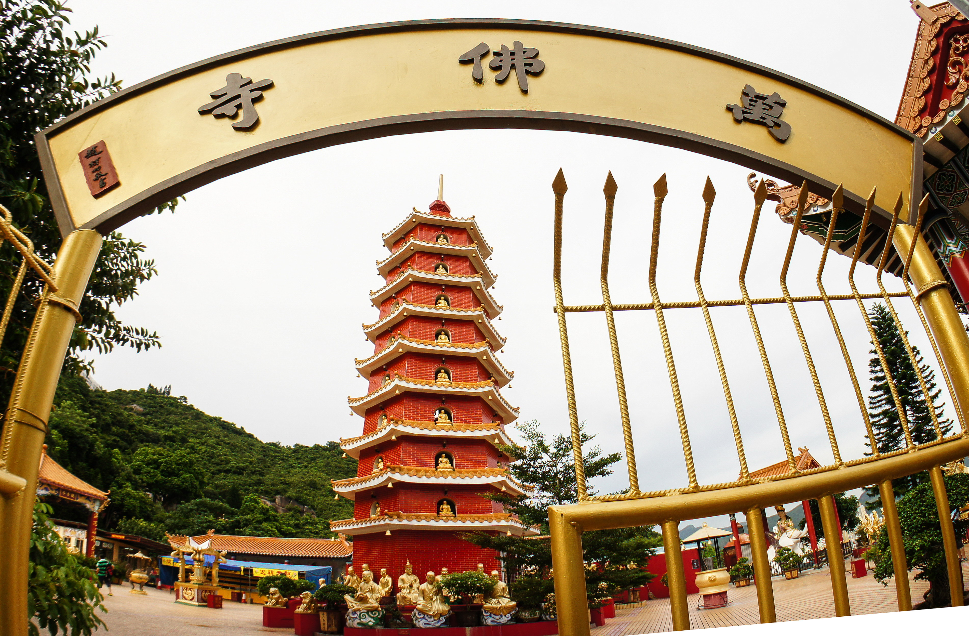 West entrance, Man Fat Tsz (Ten Thousand Buddhas Monastery) , Sha Tin, Hong Kong.